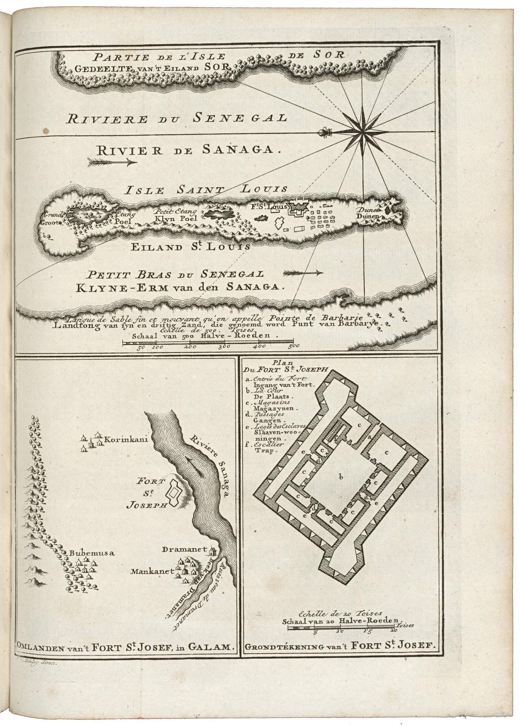 Map of the island of St. Louis in the Sanaga River and a floor plan and chart of the St. Joseph fort. Omlanden van 't Fort St. Josef, in Galam. / Grondtékening van 't Fort st. Josef. Key a-f.